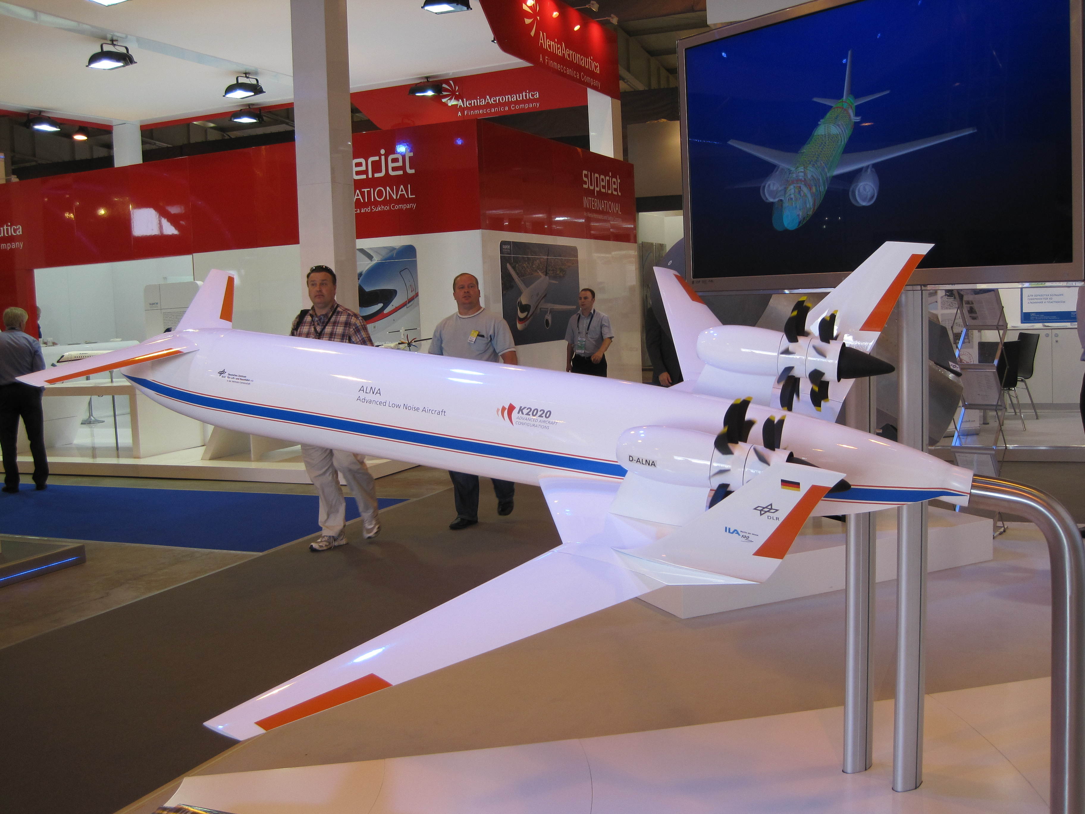 DLR LNA (Low Noise Aircraft) at MAKS 2011.